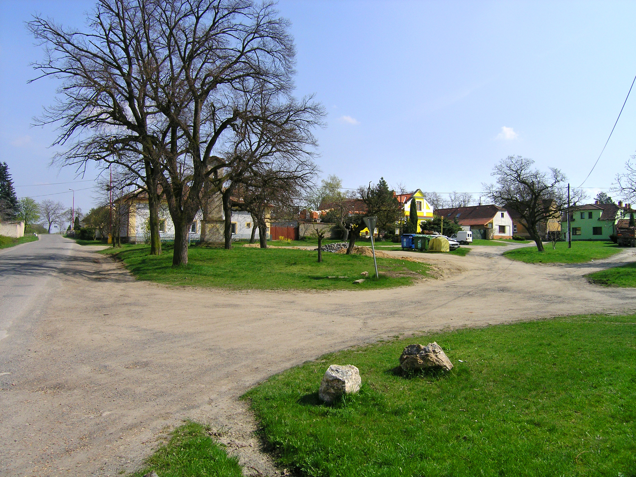 Common in Veliký Brázdim, local part of Brázdim village, Czech Republic